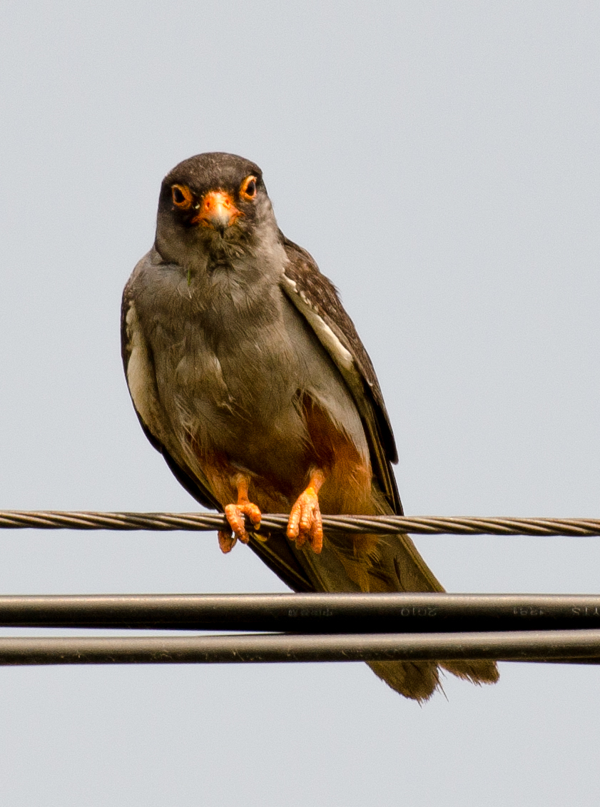 Taken at Huanzidong Reservoir, Liaoning Province, China